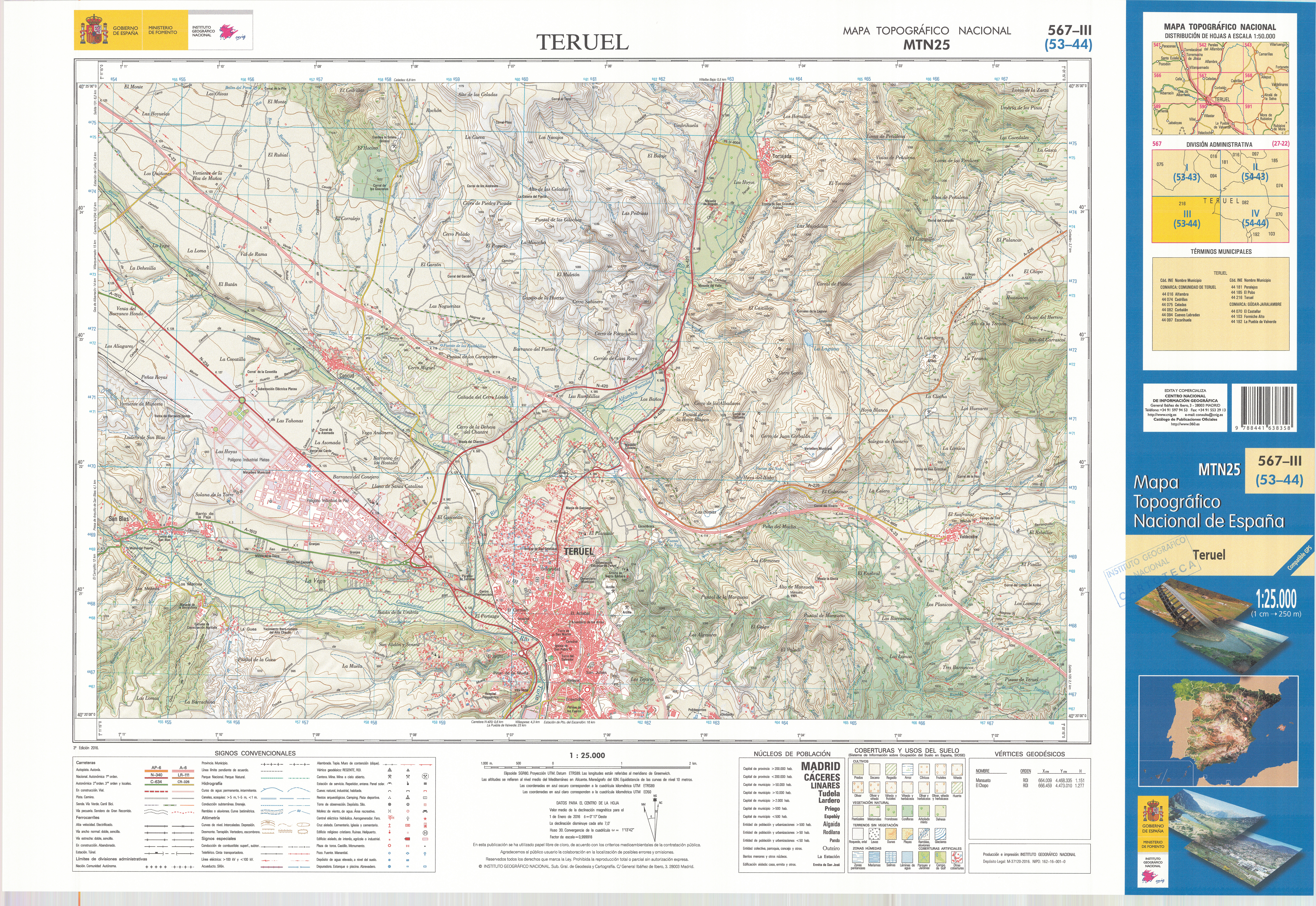 Fragment 0567c3 of the National Topographic Map of Spain in 2016 at a scale of 1:25000 printed and scanned with a resolution of 250 ppi. It shows Teruel.